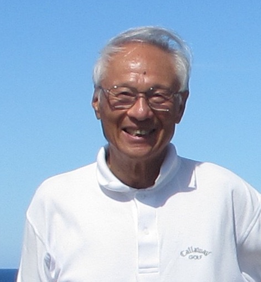 Professor Akira Hasegawa